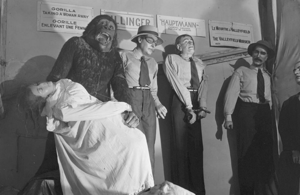 We see waxworks museum Eden, located on 284 Saint-Laurent Street in Montreal, representing a gorilla, kidnappers and a murderer.